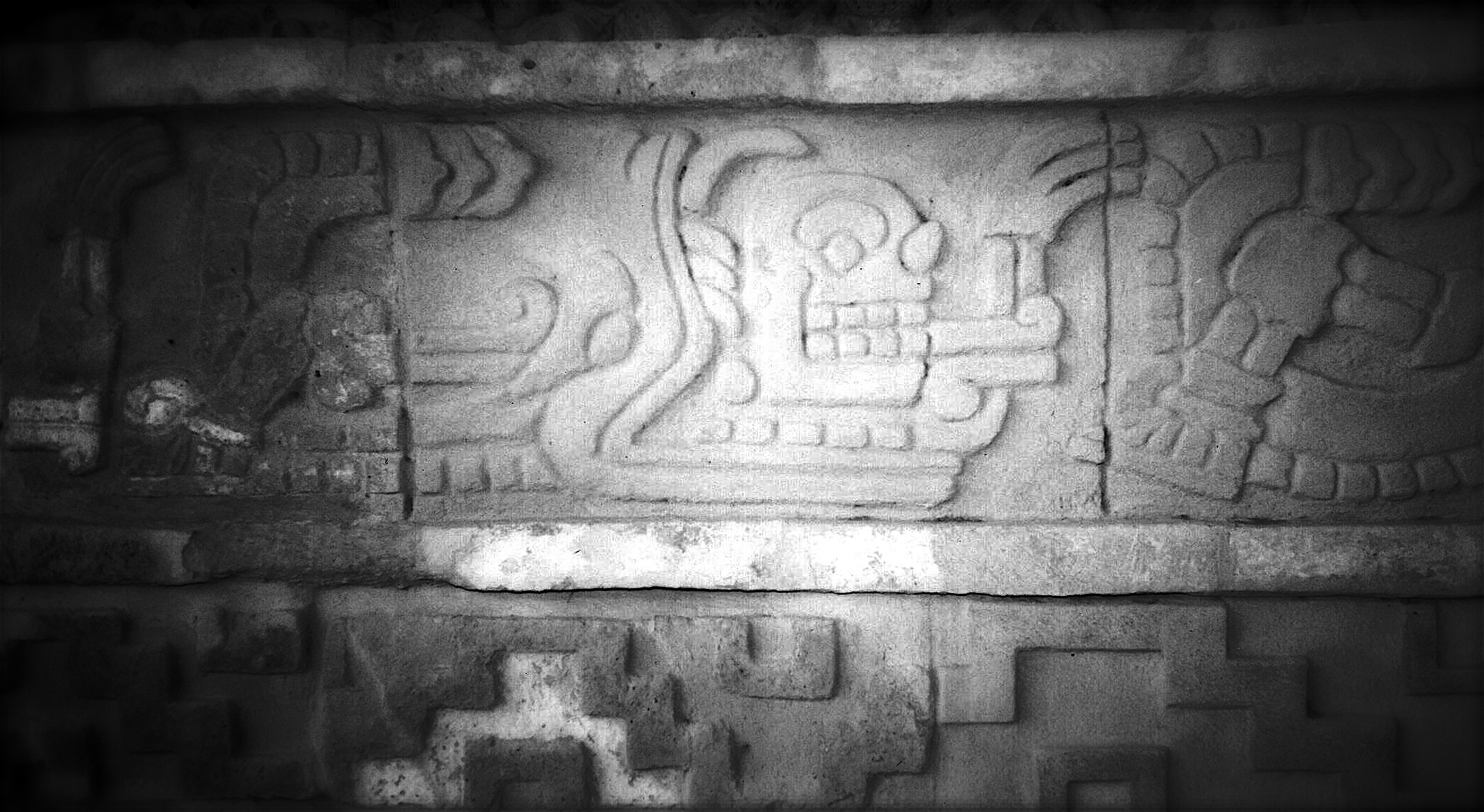 Toltec Heiroglyphs at Tula, Hidalgo, Mexico